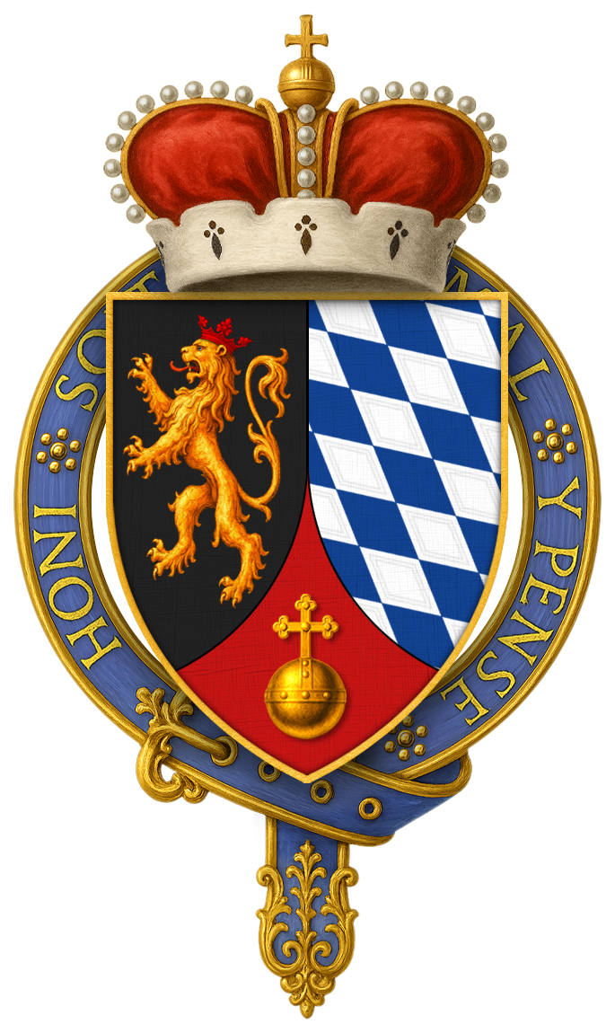 Coat of arms of Charles I Louis, Elector Palatine, KG